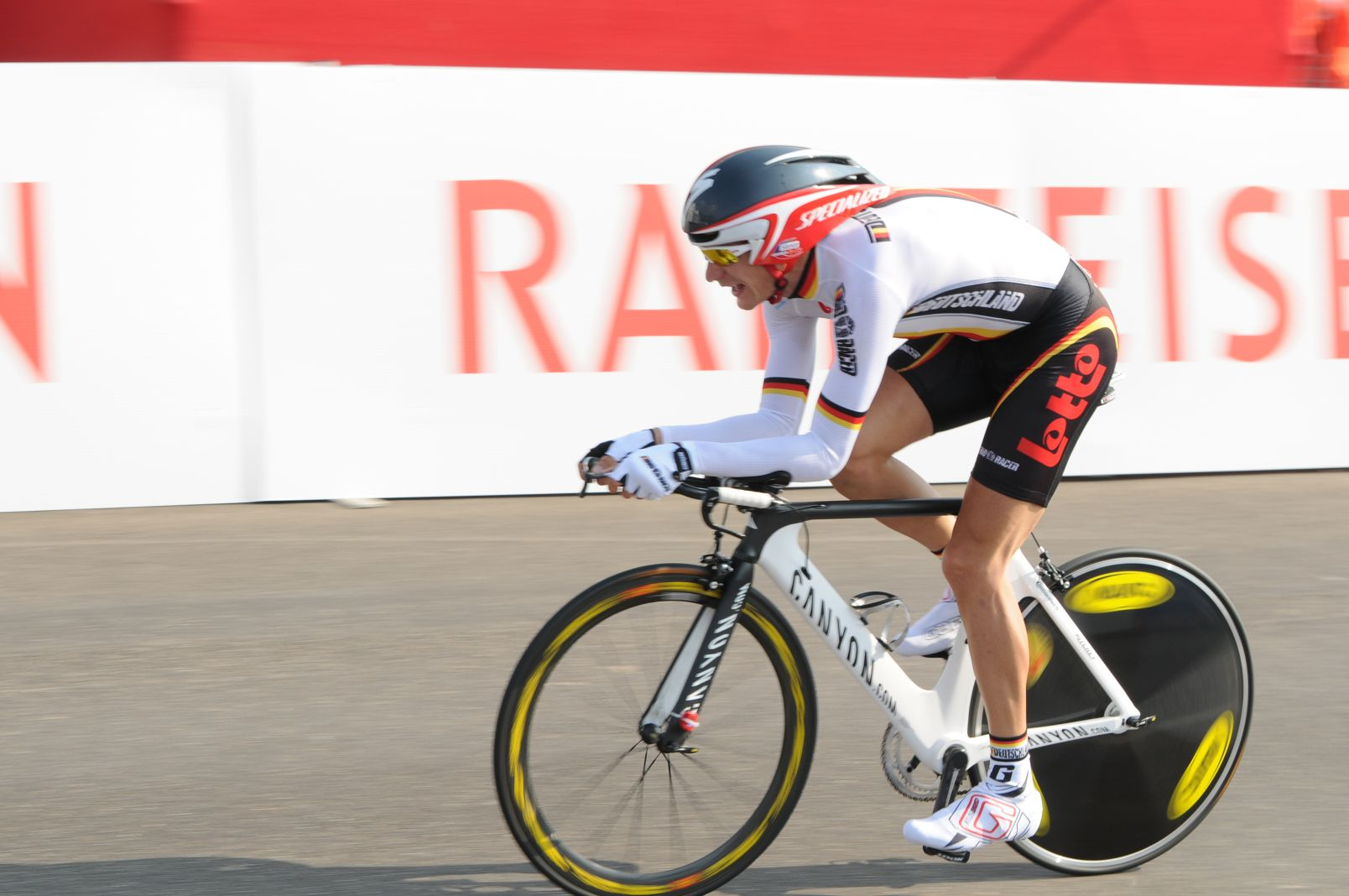 Sebastian Lang at UCI World Championships in Mendrisio, Switzerland